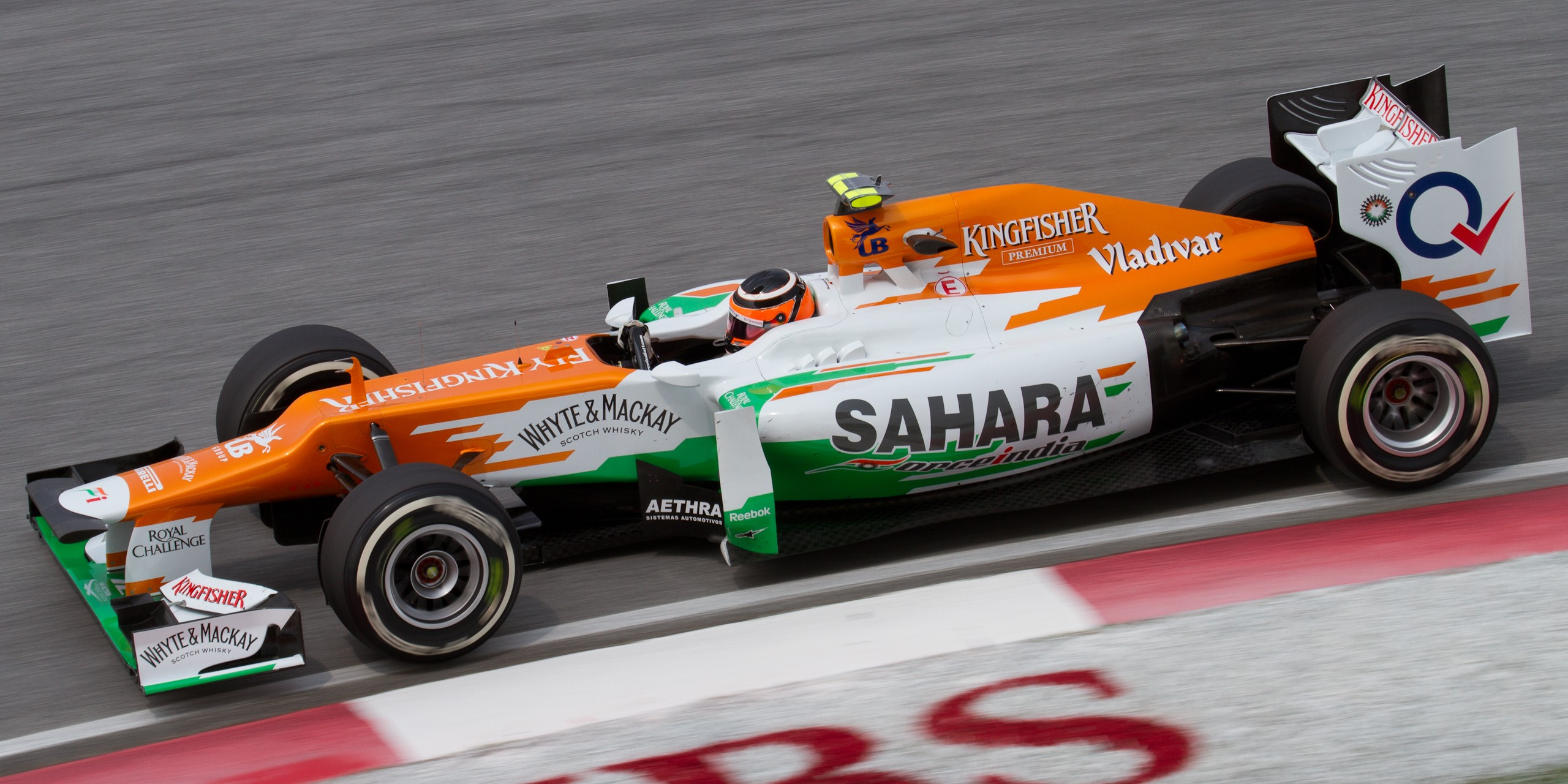 Formula One 2012 Rd.2 Malaysian GP: Nico Hülkenberg (Force India) during the second practice session on Friday.